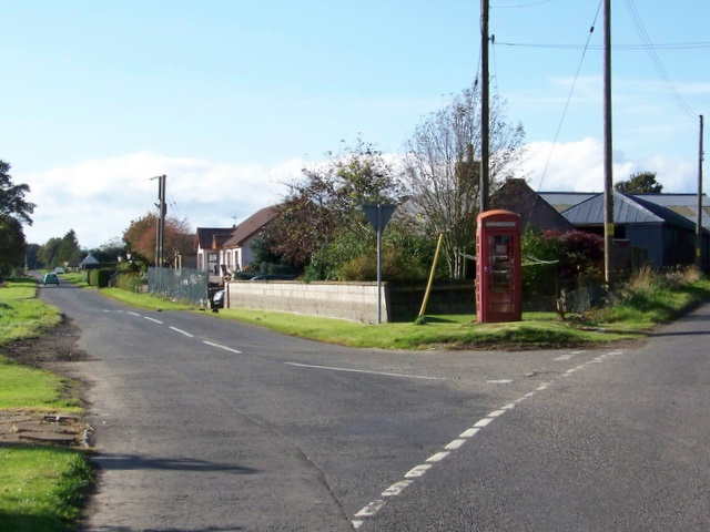 Road junction, Little Brechin